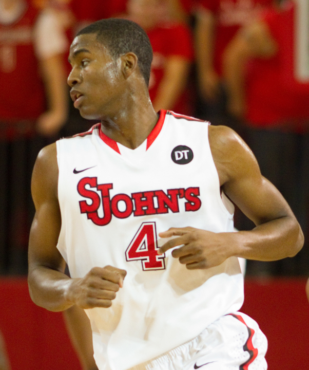 Moe Harkles of St. John's Red Storm